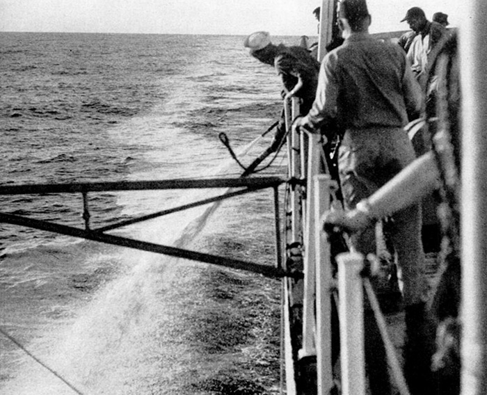 Coast Guard sailors aboard the Unites States Coast Guard Cutter (USCGC) Pontchartrain use foam from firehoses to lay down a “runway” for Flight 6